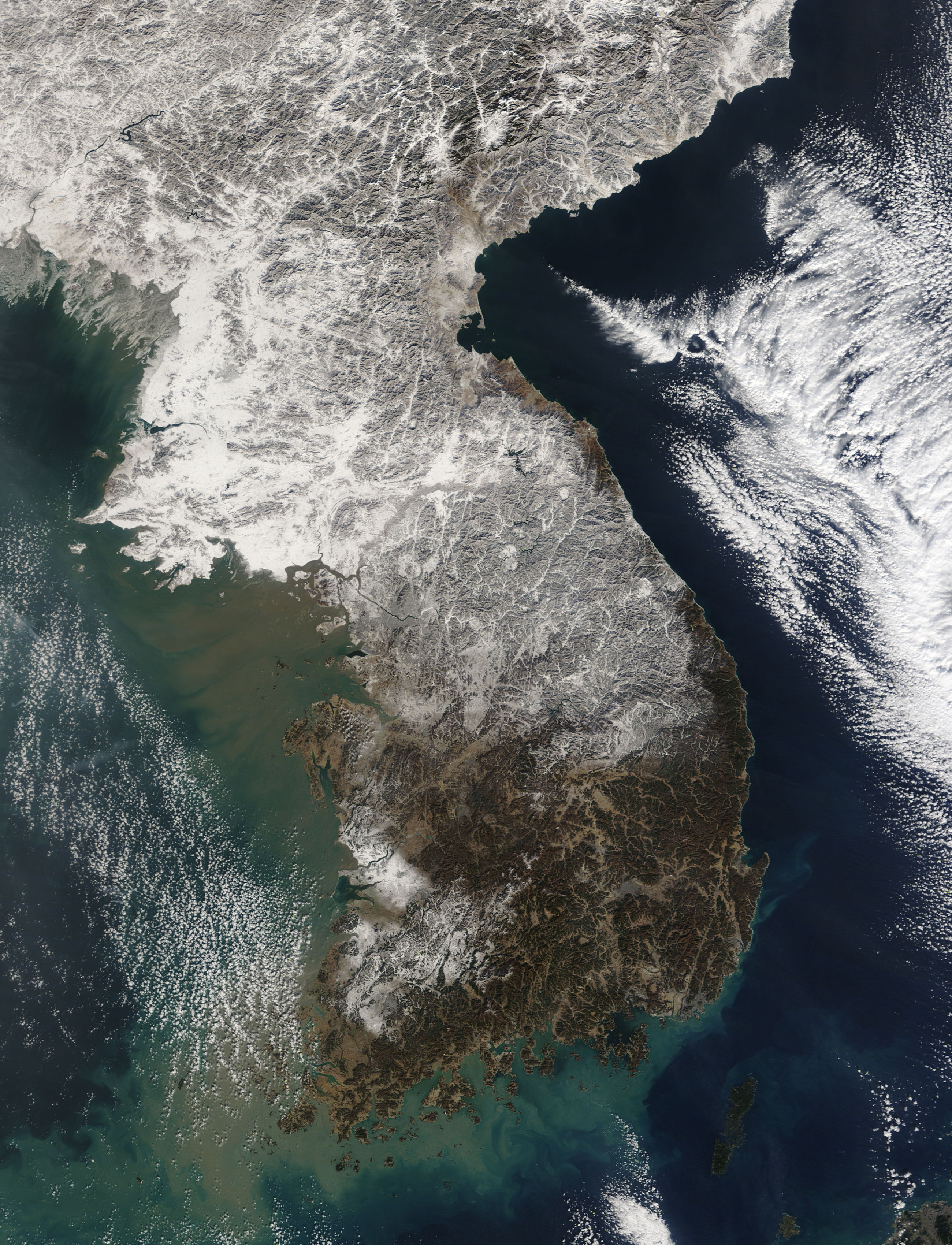 Snow covered Korea in January 3, 2010.